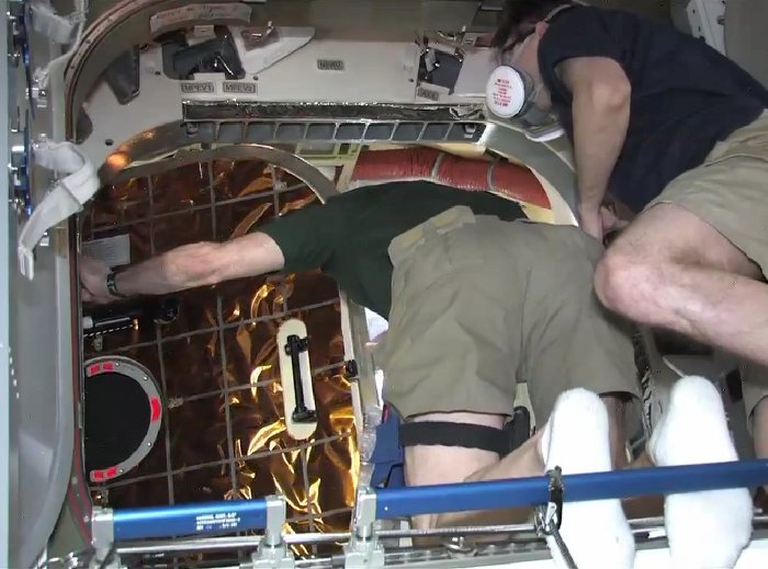 Don Pettit opens the hatch to the COTS 2 Dragon.